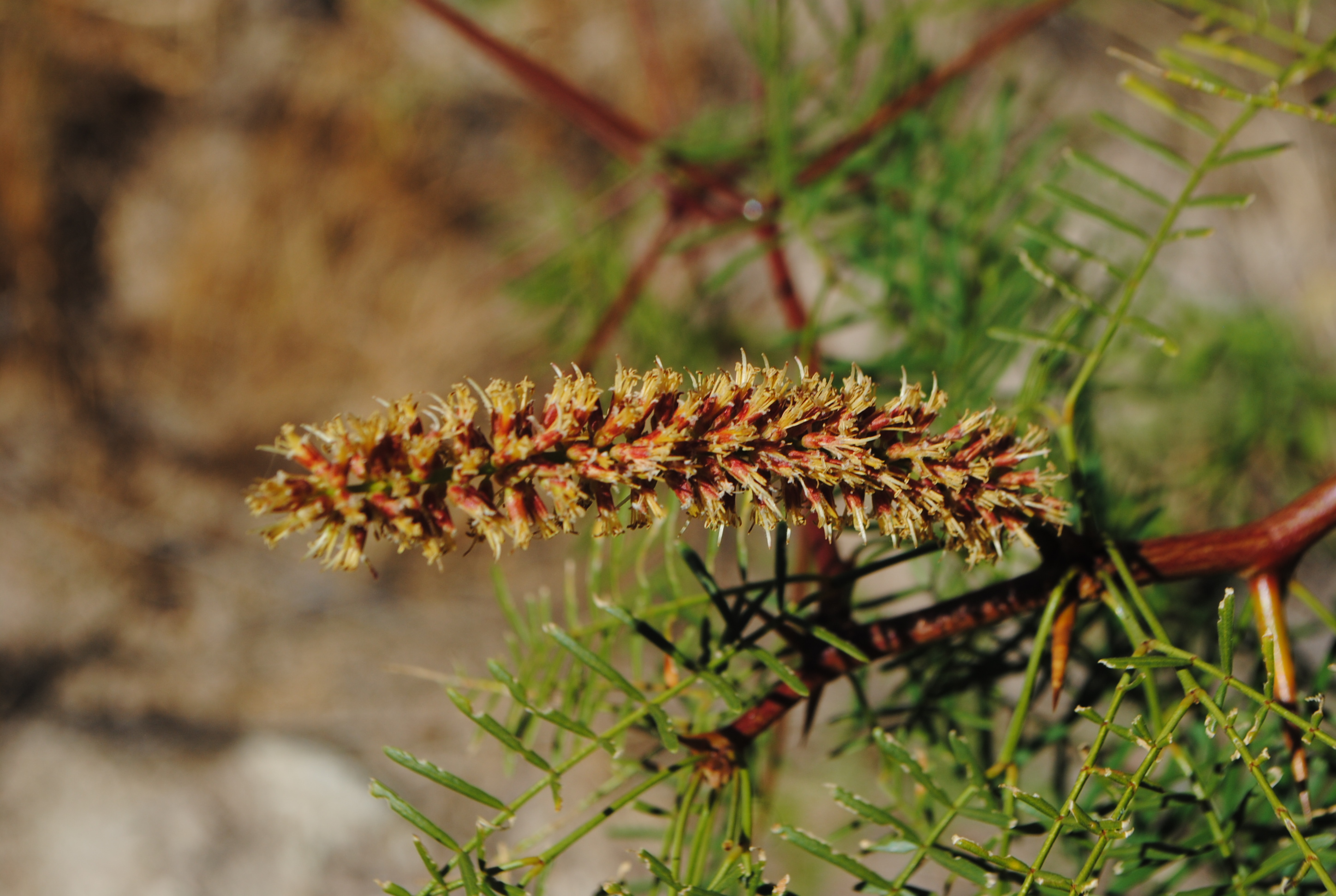 Prosopis alpataco flower, photo taken near Las Grutas, Río Negro province, Patagonia, Argentina